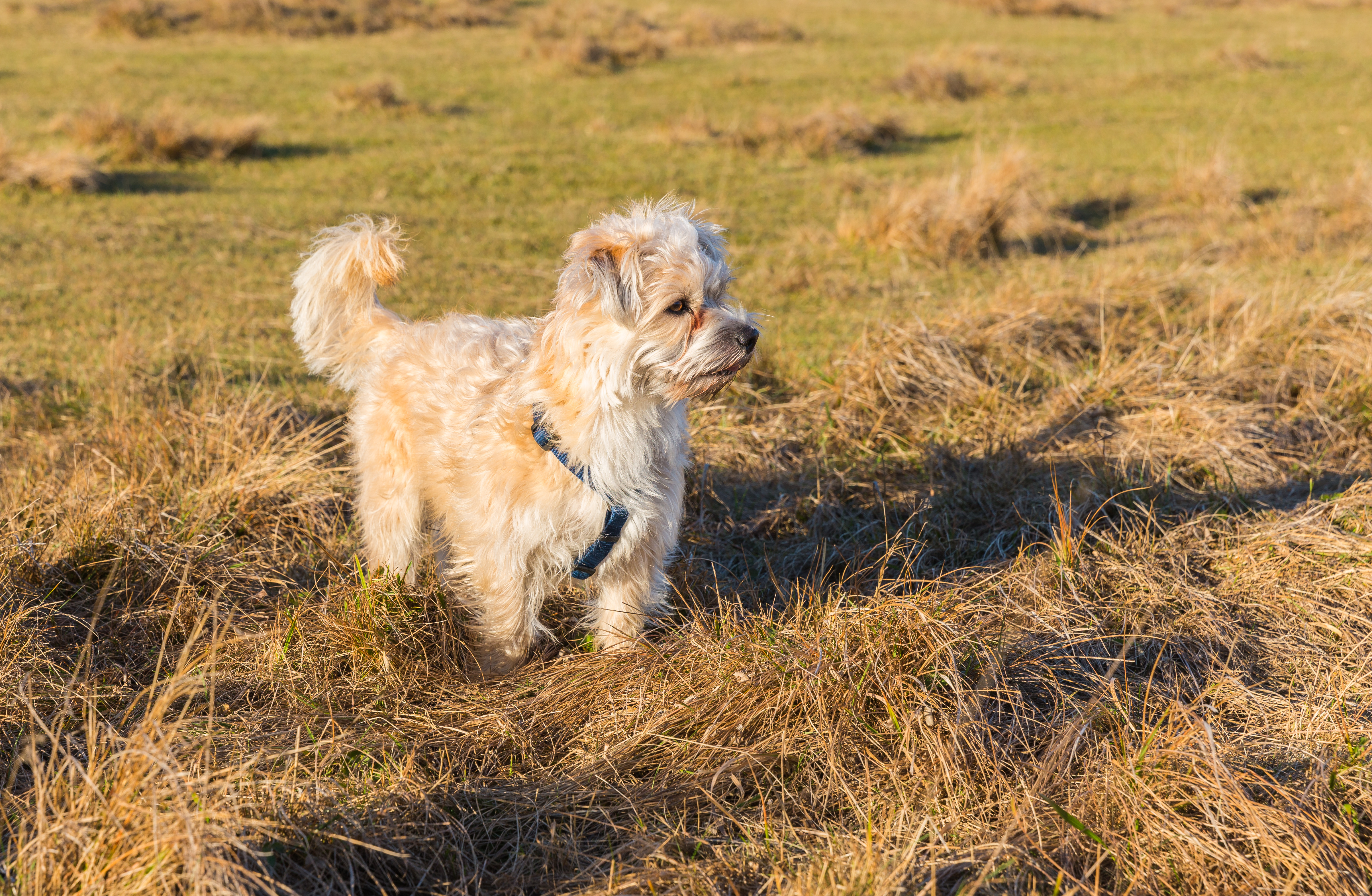 "Lucky" (2 years-old Maltese-Terrier Cairn hybrid) in the Panzerwiese, Munich, Germany